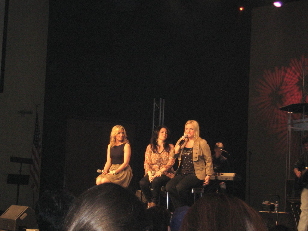 KLTY held a Point of Grace concert at our church tonite, followed by a Marriage Renewal Ceremony. We really enjoyed POG - they were quiet funny and had some good songs. The marriage renewal ceremony was for all couples present, very moving. I was honored to marry my sweetheart all over again! It will be 10 years this April!